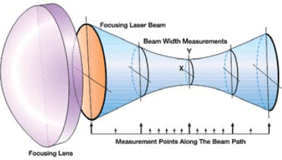 Focusing Lens explanation